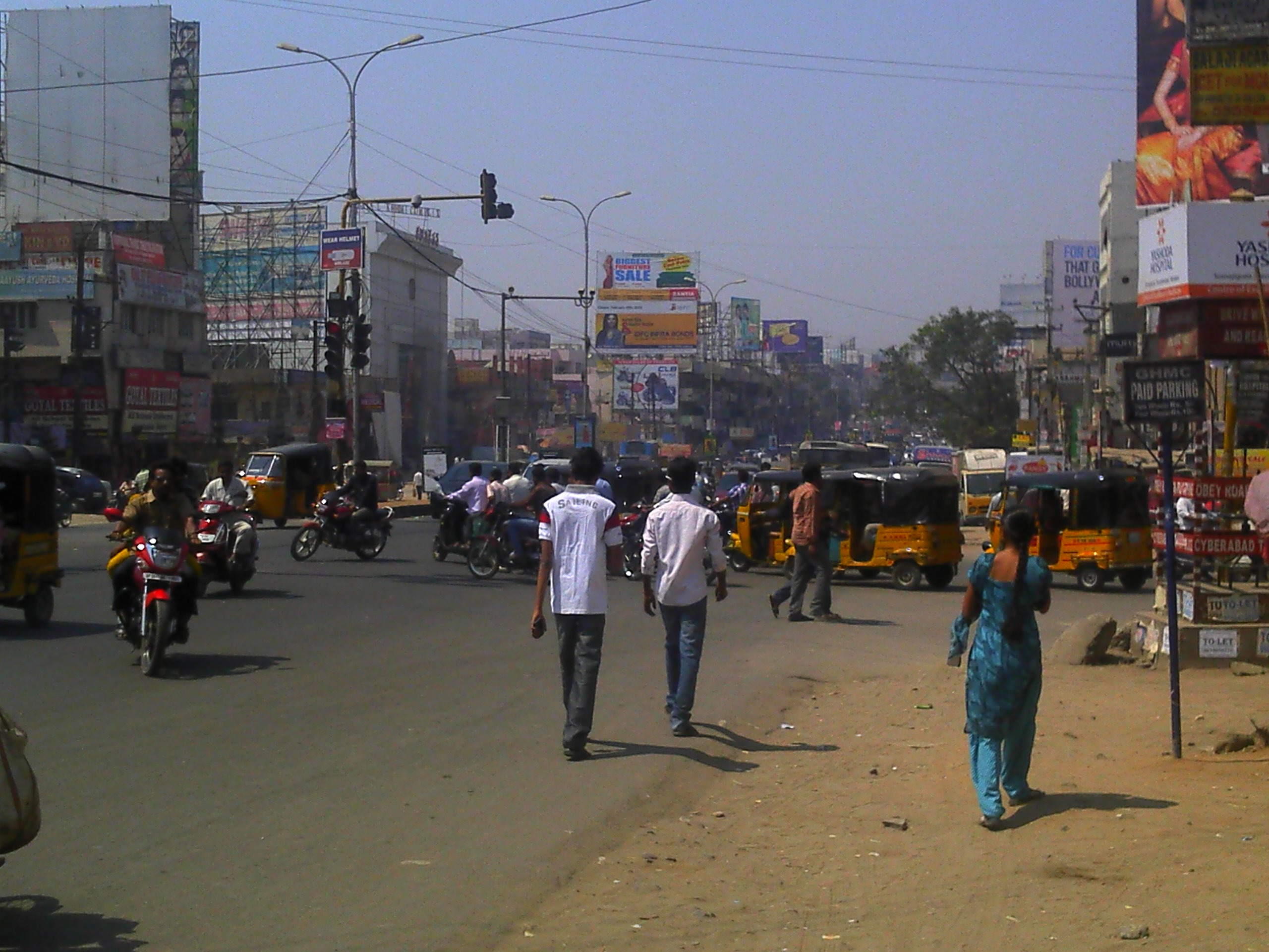 The Busy main road of Dilsukhnagar on a Sunday